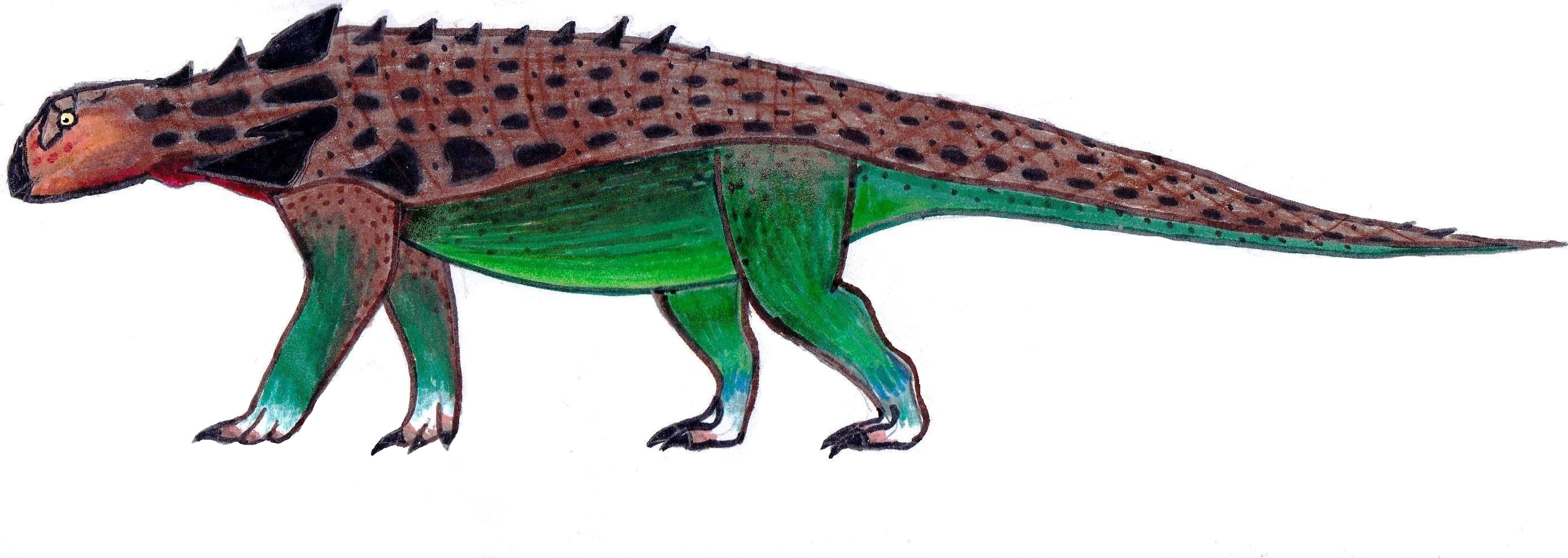 Restoration